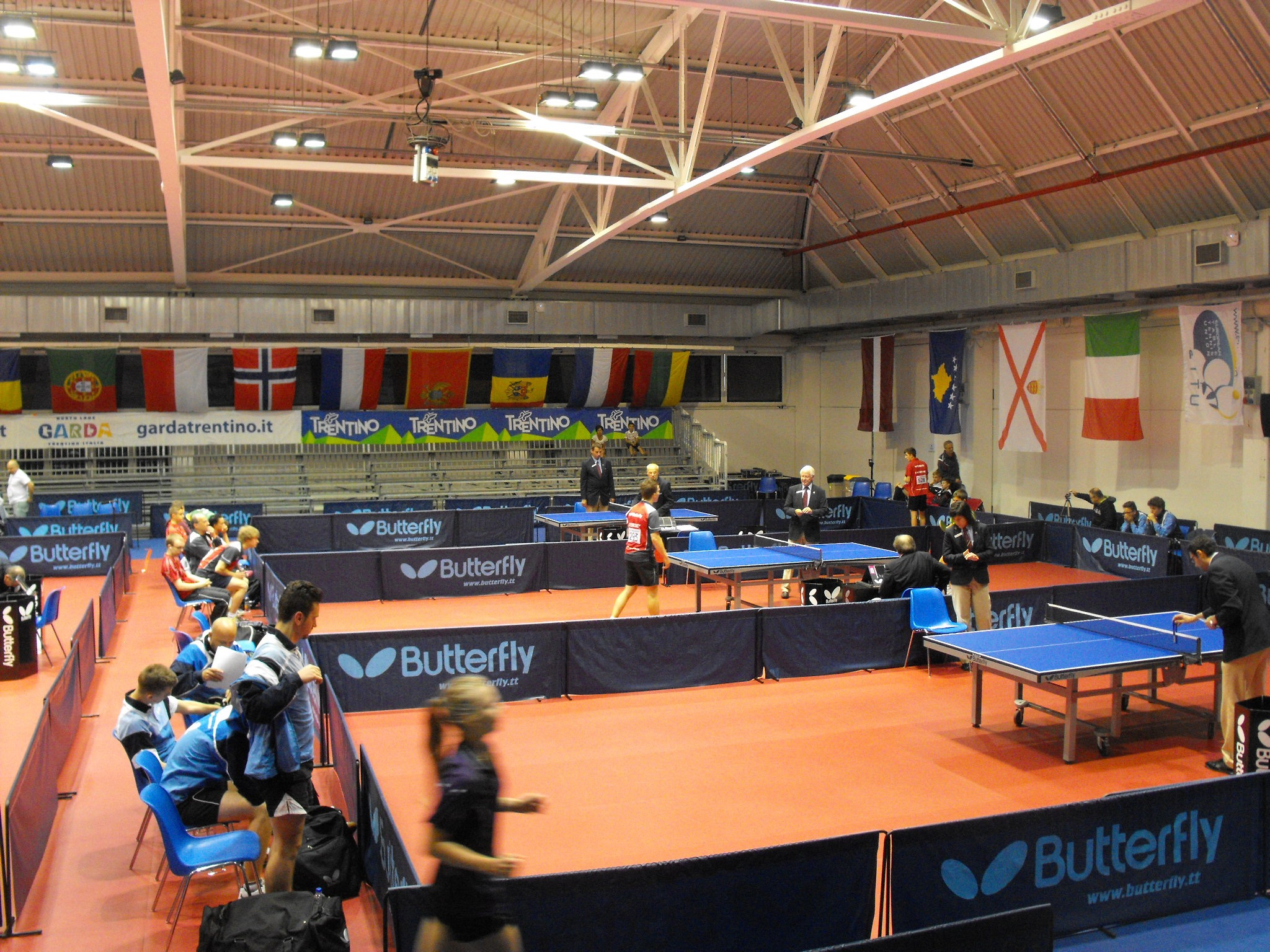 Jersey Under 18's in the main hall at the European Youth Championships in Riva Del Garda